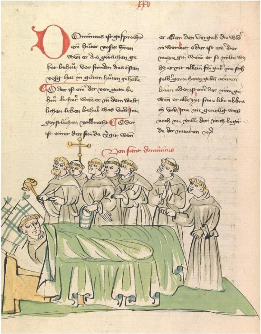 Death of Saint Dominic (Alsatian Legenda Aurea, Strasbourg 1419)